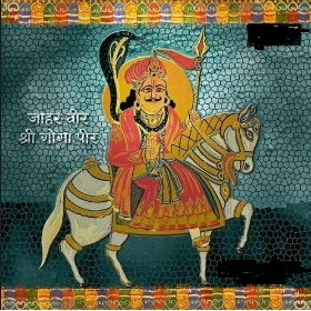 Zhar Veer Gogaji